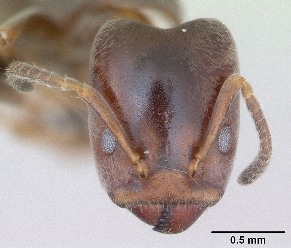 Head view of ant Azteca luederwaldti specimen casent0173829.